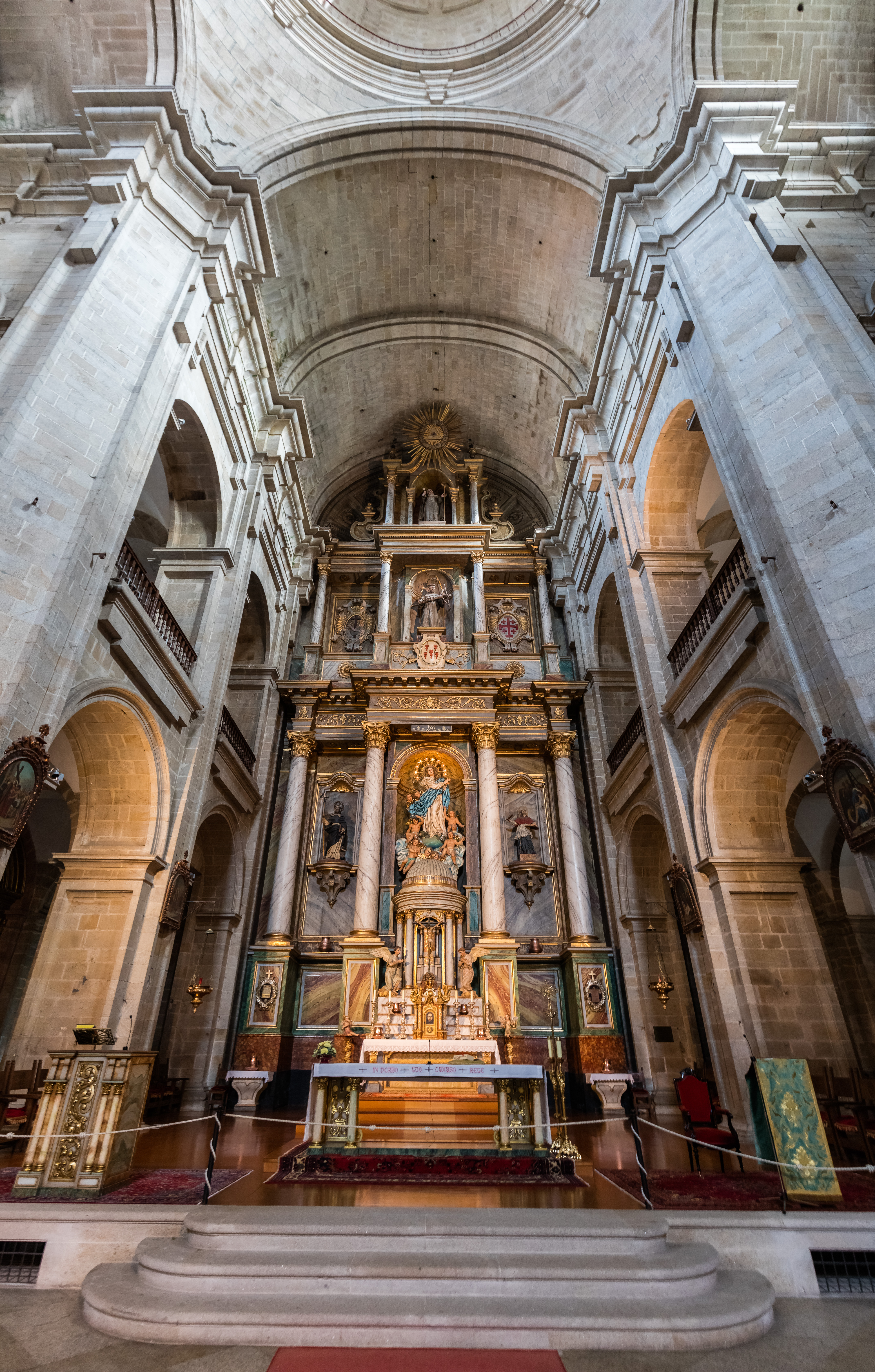 St Franciscus Monastery, Santiago de Compostela, Spain